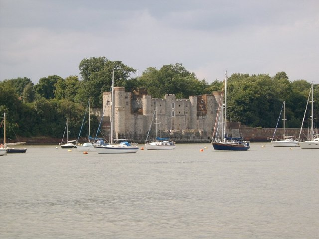 Upnor Castle from the river (Upnor Reach)